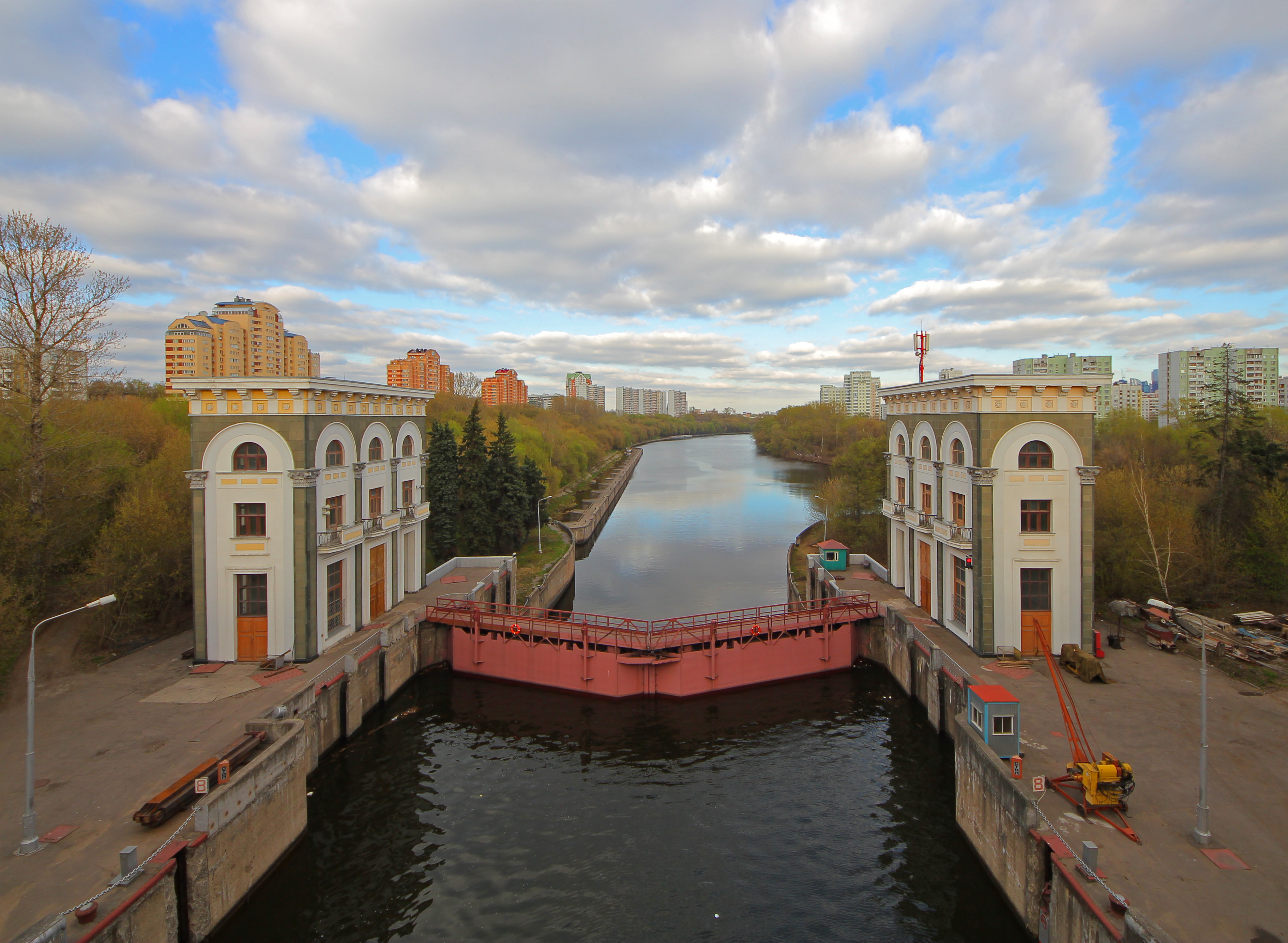 Lock Nr.9 at the short straightening canal on Moskva River near the Karamyshevskaya Embankment